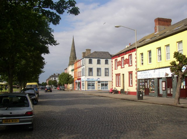 Silloth Original description: Criffel Street, Silloth Silloth was developed as a fashionable spa town, but was not very successful, but is now attractive with its bright colour-washed buildings. It was planned by Messrs Hay of Liverpool as a grid of wide tree-lined streets. The main street is Criffel Street, named after the prominent mountain over the Solway Firth. On the seaward side of Criffel Street there is a large green, with pine trees, between the town and the well built Promenade, which gives good views across the Solway. The granite setts are now 'heritage' and a tourist attraction.